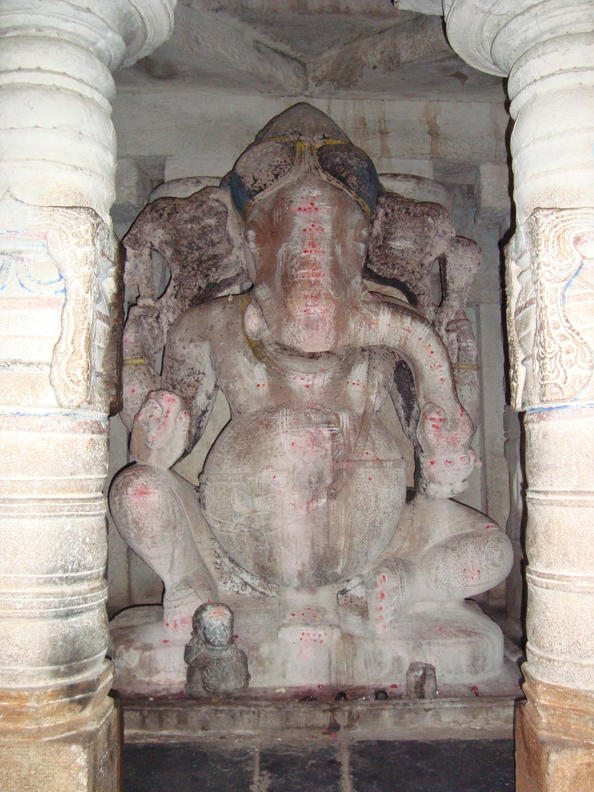 Sudi Large Ganesh statue. Hubli, Karnataka(North), India